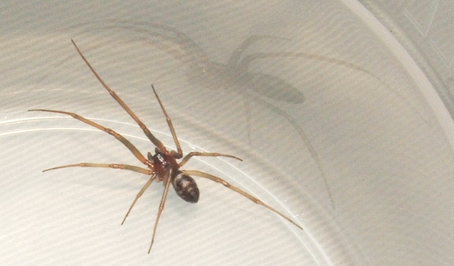 A domestic male cupboard spider or dark comb-footed spider (Steatoda grossa) found in German Township near Evansville, Vanderburgh County, Indiana, USA. Measuring 6 mm (0.24 in) and seen here in a plastic jar, it was photographed alive approximately 10 hours after capture. I originally shared this photo via ImageShack.us for identification at .